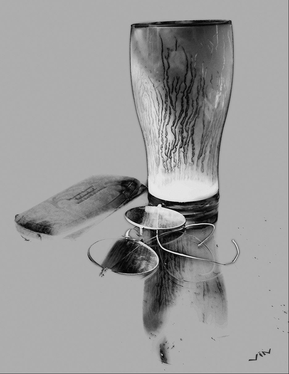 Losing Eyesight. Surrealism. Photograph.